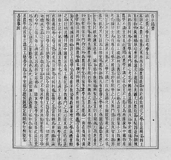 Part of a Huazong Agricultural University recruitment flyer